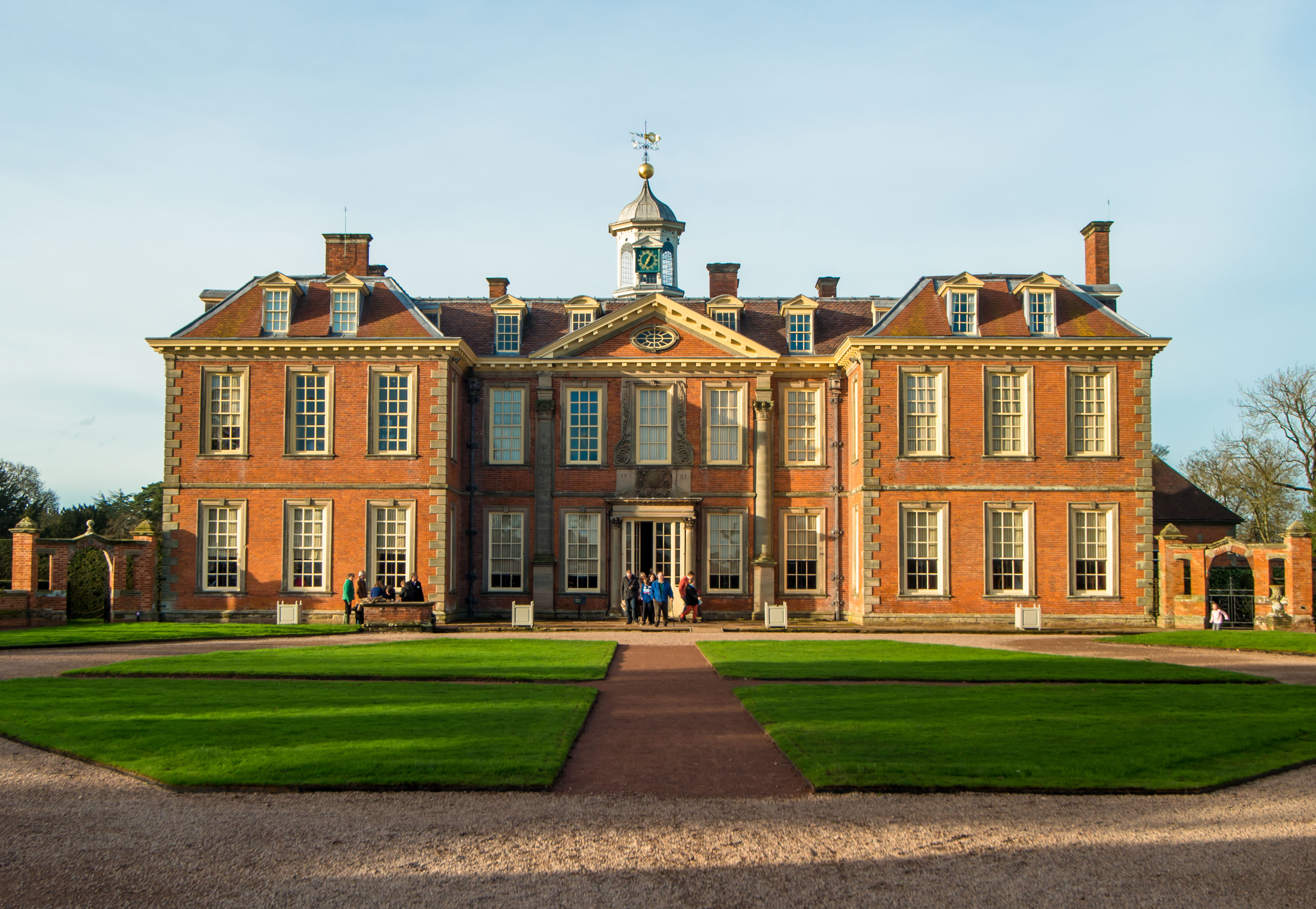 Hanbury Hall, Worcestershire